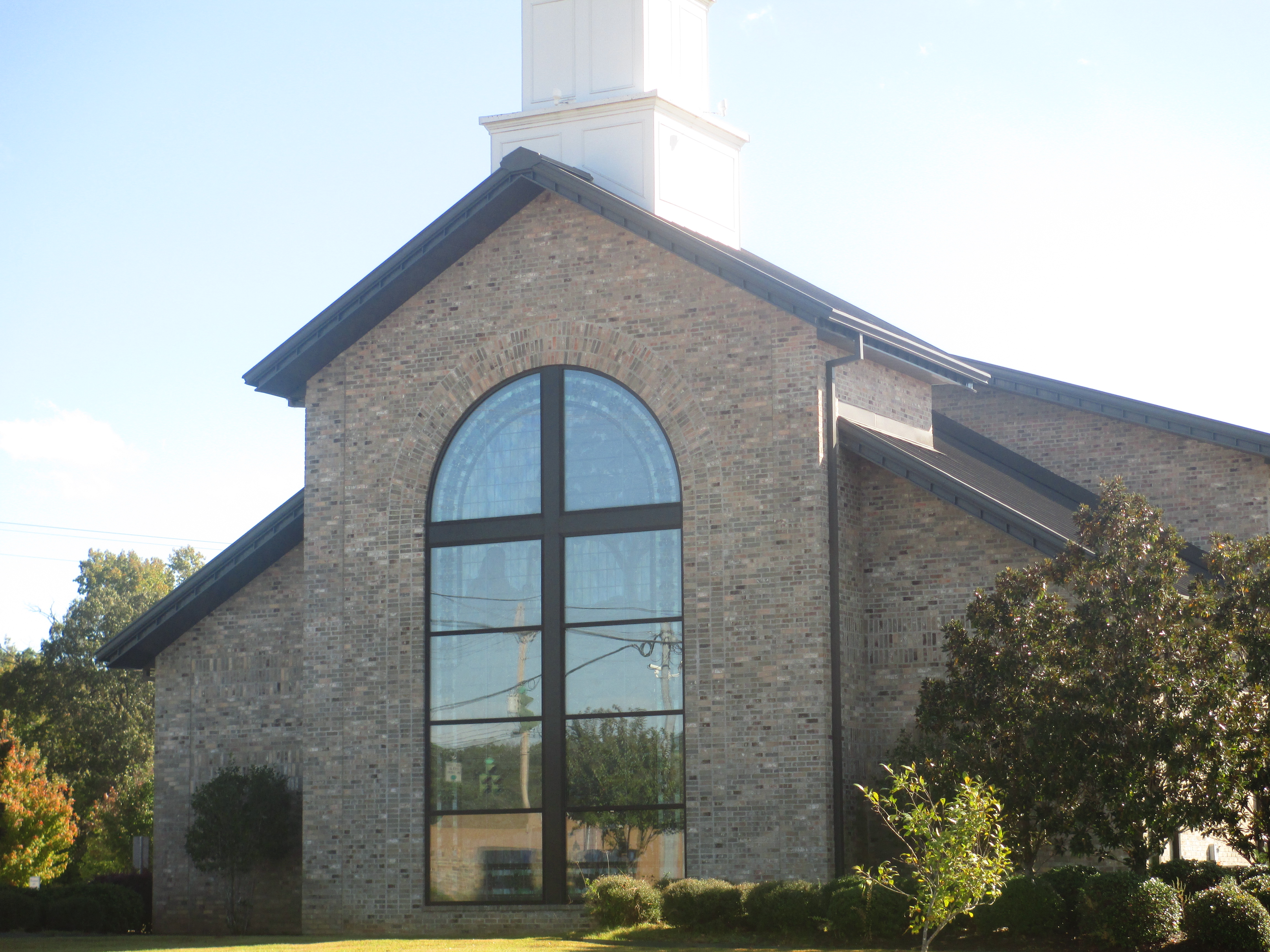 Revised, Calvary Missionary Baptist Church, Minden, LA